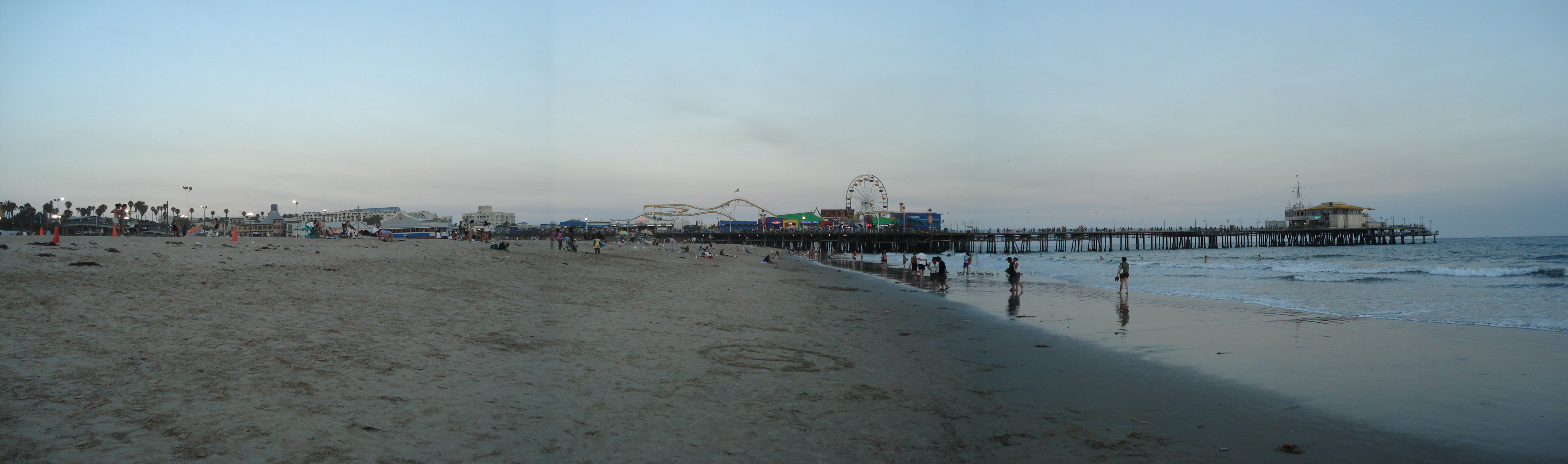 A panorama of the Santa Monica Pier near dusk on August 17, 2007 created using Image stitching and a Sony DSC-W30.